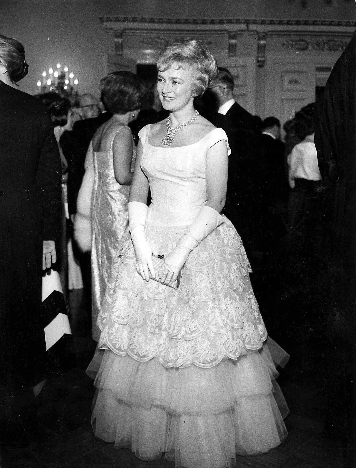 Photograph of the Finnish actor Elina Pohjanpää (1933–1996) at Finland’s Independence Day reception, Presidential Palace, Helsinki.